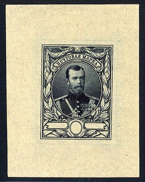 Russia, essay of Tsar Nicholas II, full face, die essay (by Louis Eugene Mouchon) in blue black on thin card.